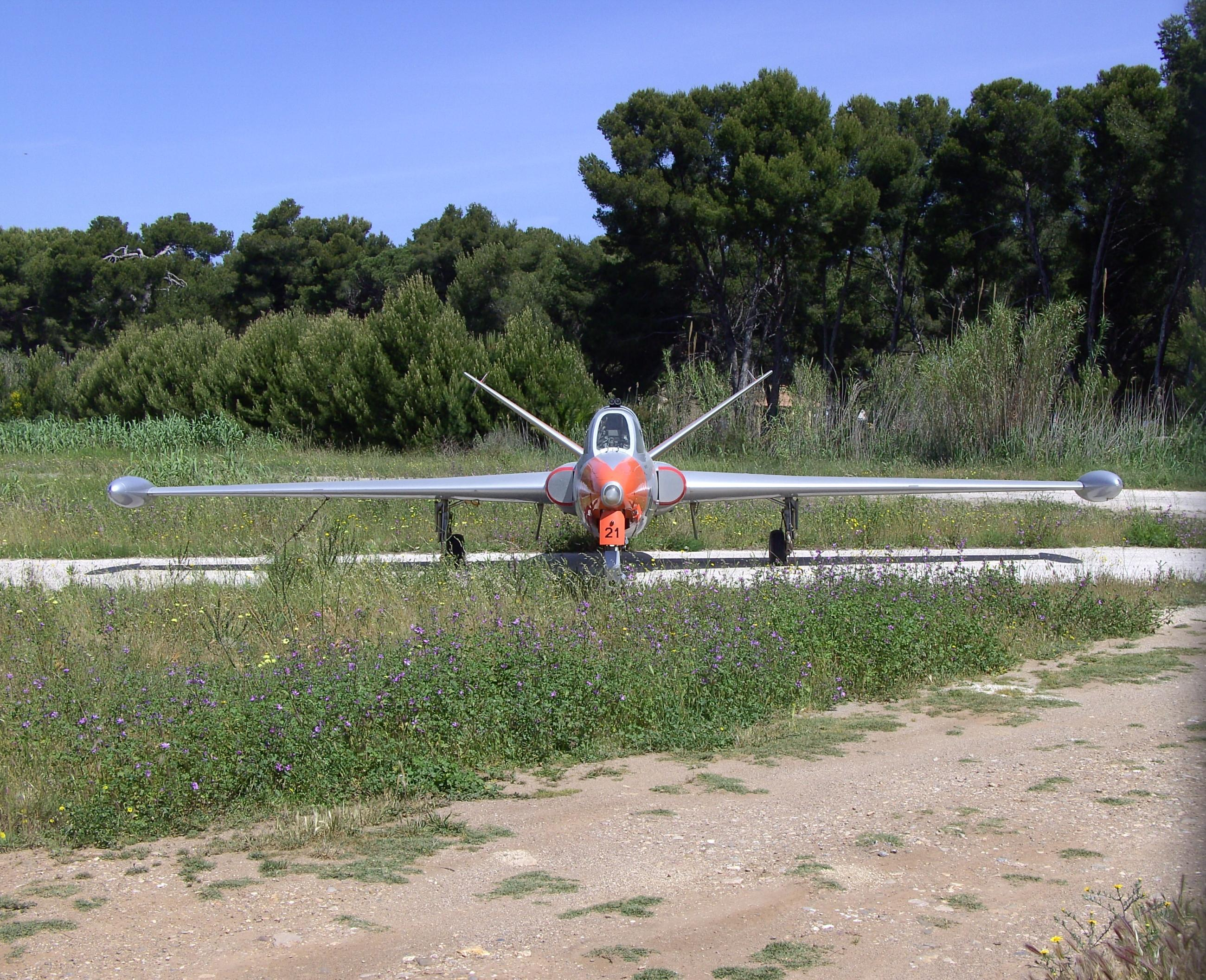 Fouga CM.175 Zéphyr carrier-capable jet trainer aircraft of the French Naval Aviation force, at Toulon-Hyères Airport, May 2012.